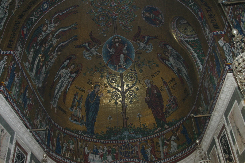 Westminster Cathedral, London